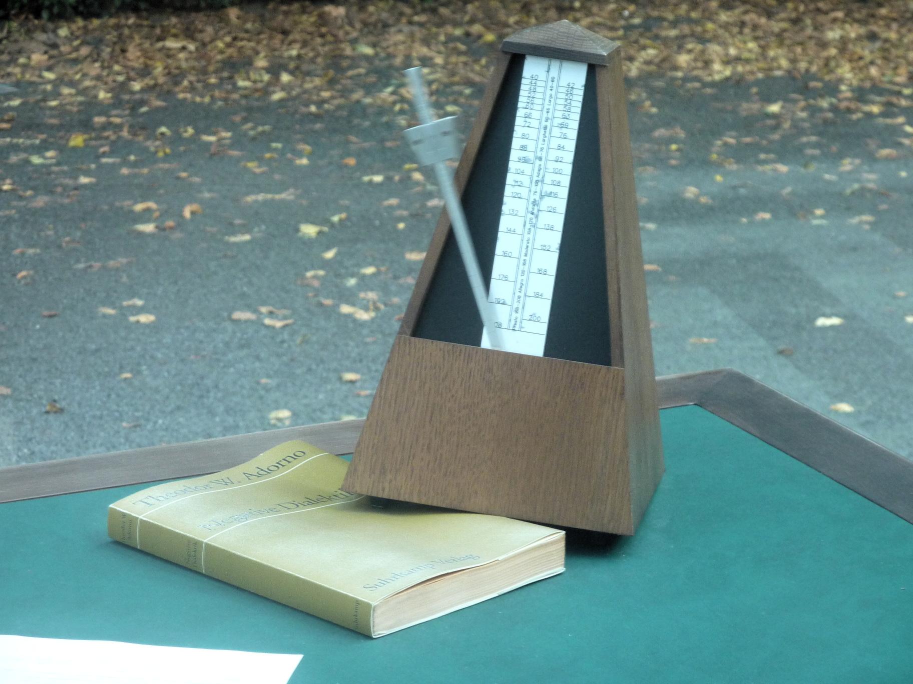 Frankfurt/M., Germany: Detail of the Adorno-Denkmal designed by Vadim Zakharov. Memorial in the borough of Bockenheim, dedicated to German sociologist, philosopher, composer and critic Theodor W. Adorno (1903–1969). Photo published under the conditions of German Panoramafreiheit (Freedom of Panorama/FOP).